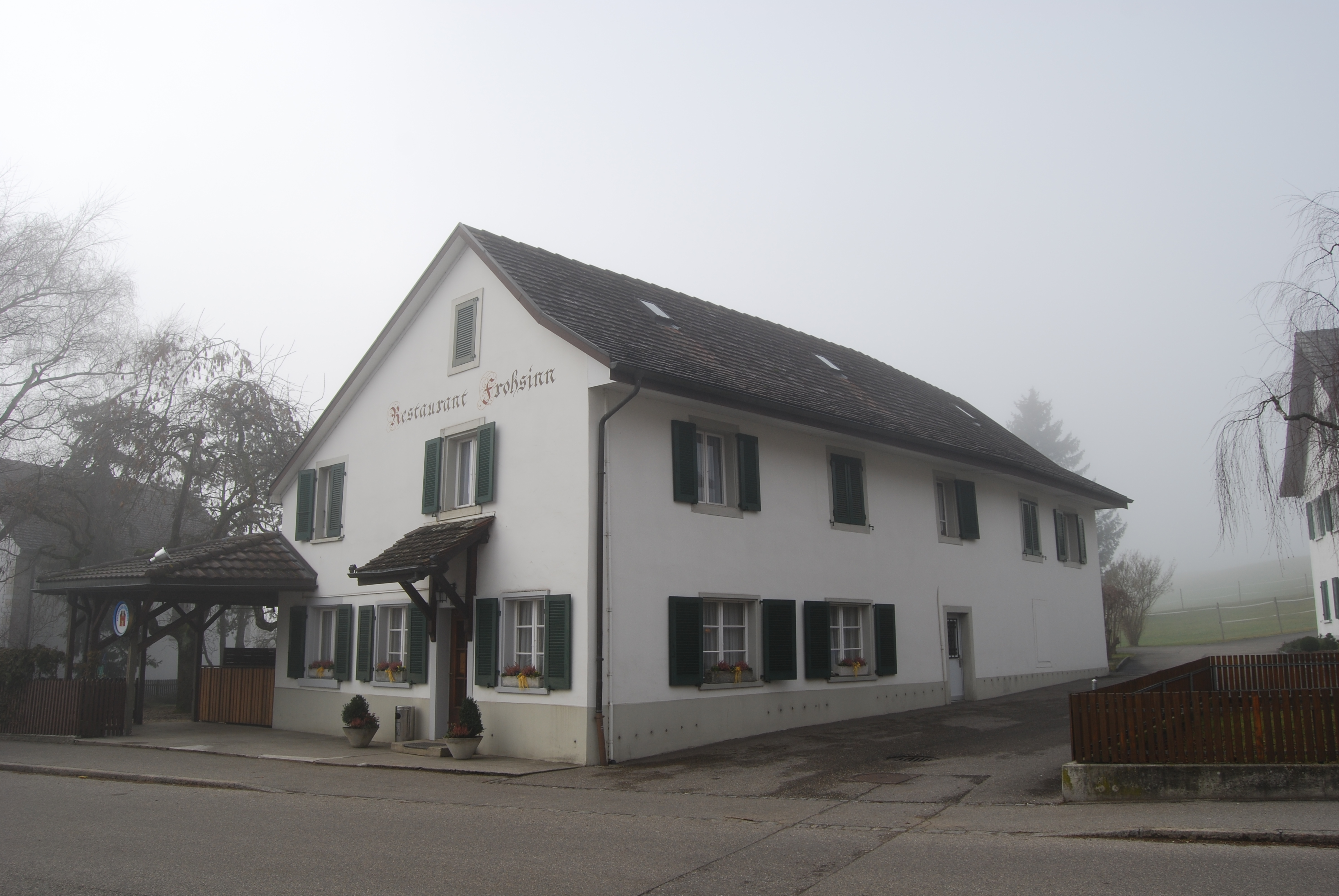 Restaurant Frohsinn at Matzendorf, canton of Solothurn, Switzerland